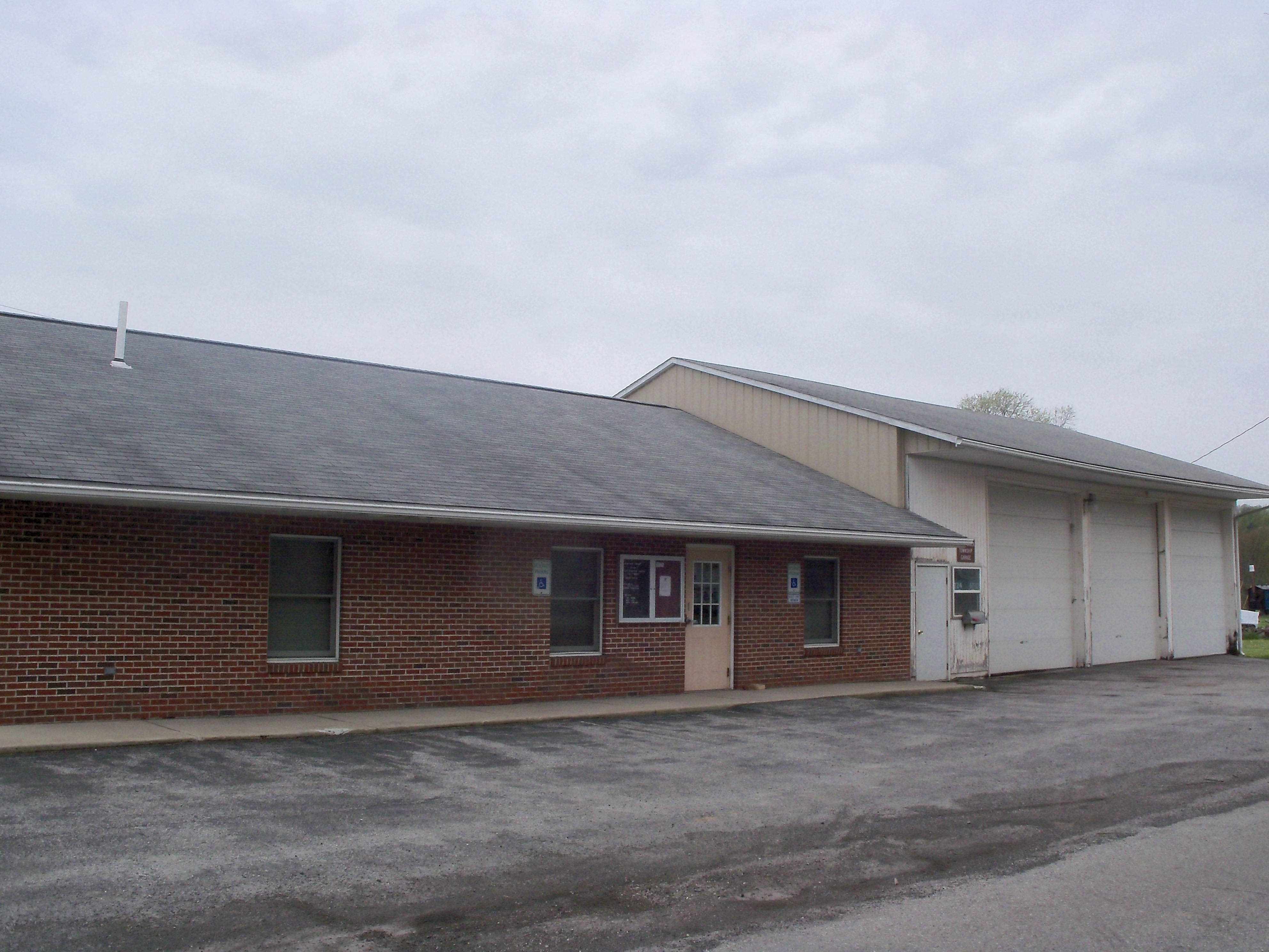 Brush Creek Township, Jefferson County, Ohio offices and garage in Monroeville, Jefferson County, Ohio